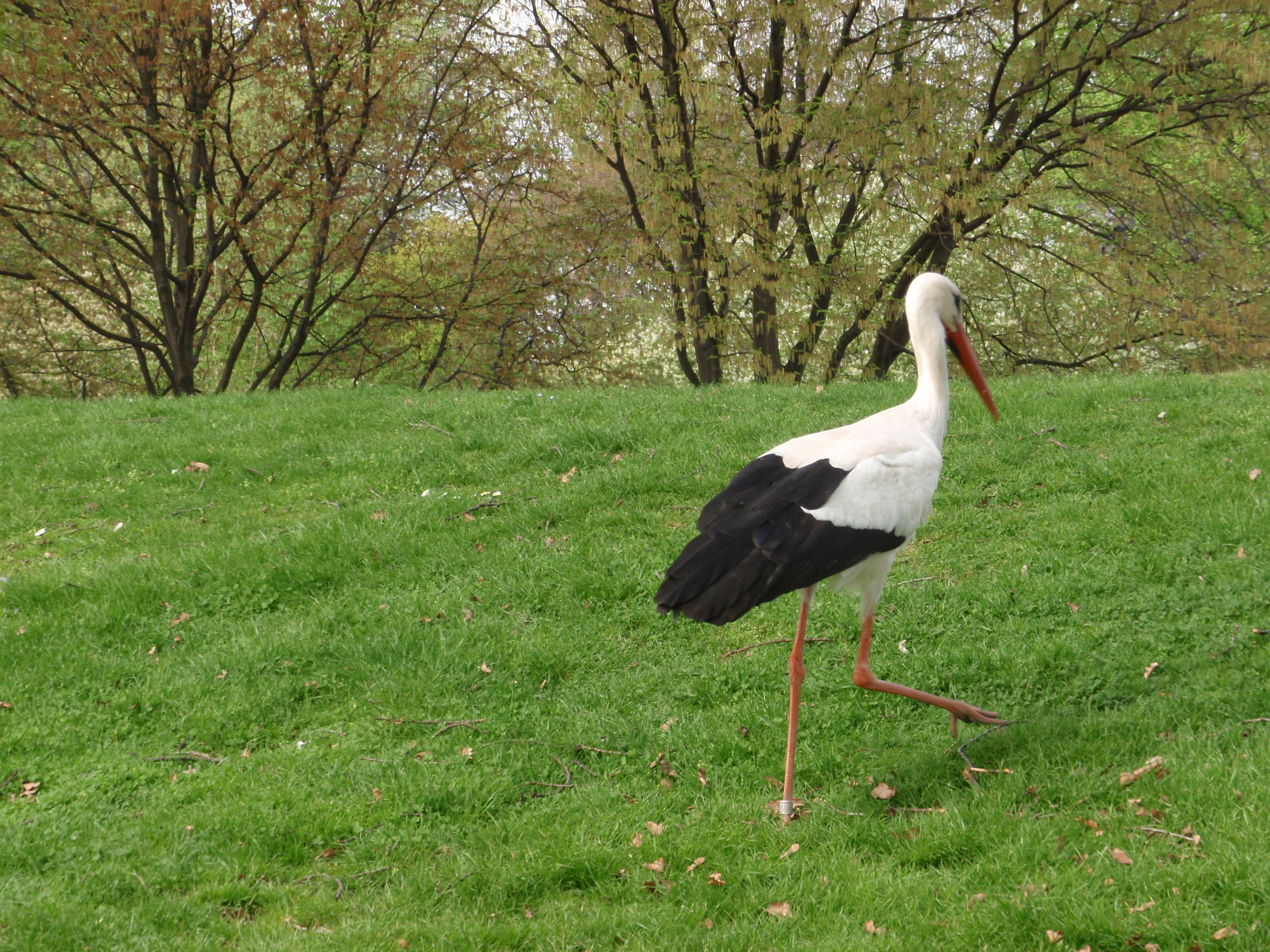 A stork in the Luisenpark Mannheim (Germany)